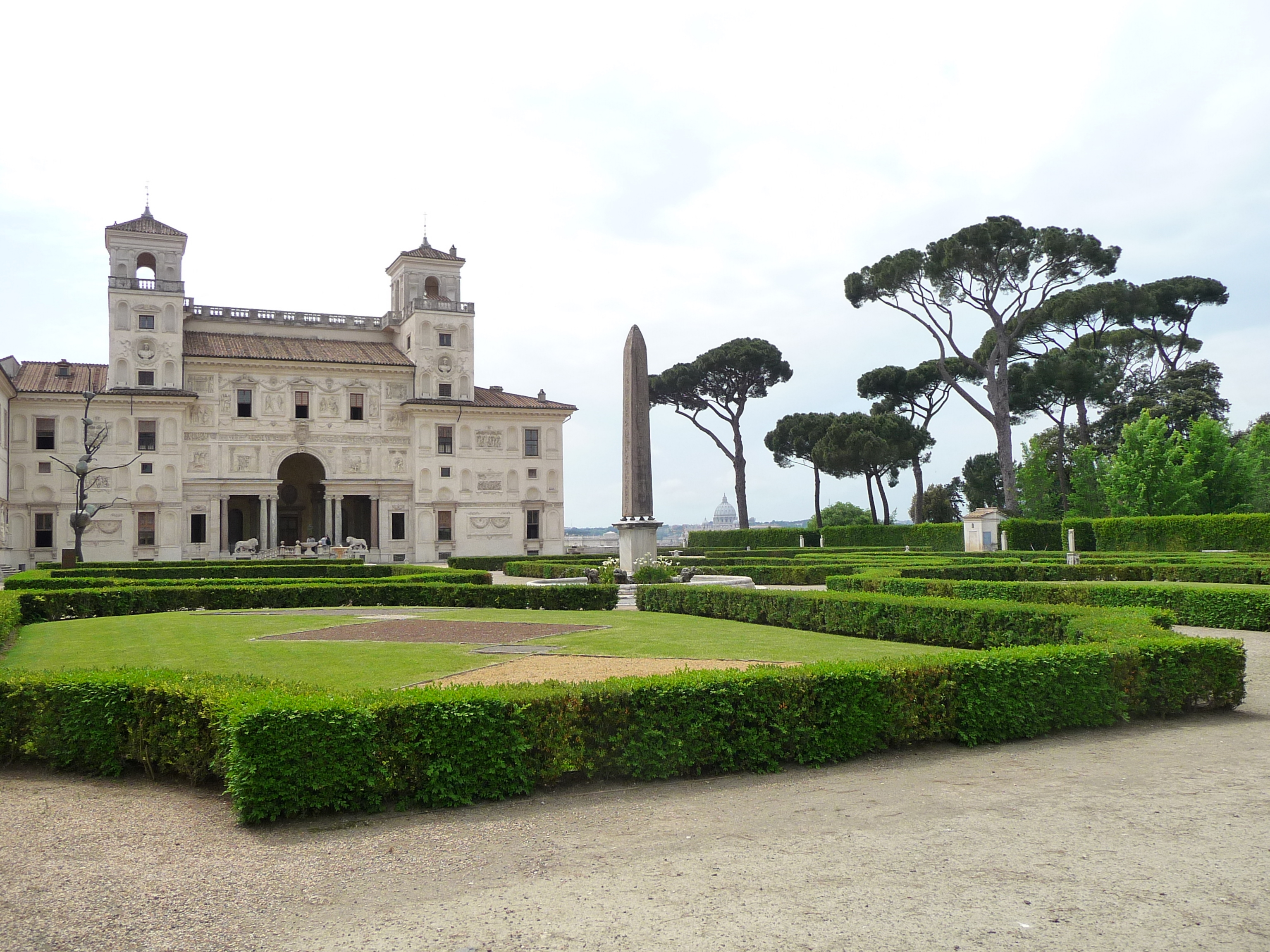 Villa Medici (Rome) - Garden